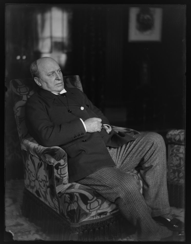 Accession Number: 1974:0056:0917 Maker: William M. Vander Weyde (American 1871–1929) Title: Henry James Date: ca. 1900 Medium: negative, gelatin on glass Dimensions: 8.5 x 6.5 inches George Eastman House Collection General – information about the George Eastman House Photography Collection is available at For information on obtaining reproductions go to